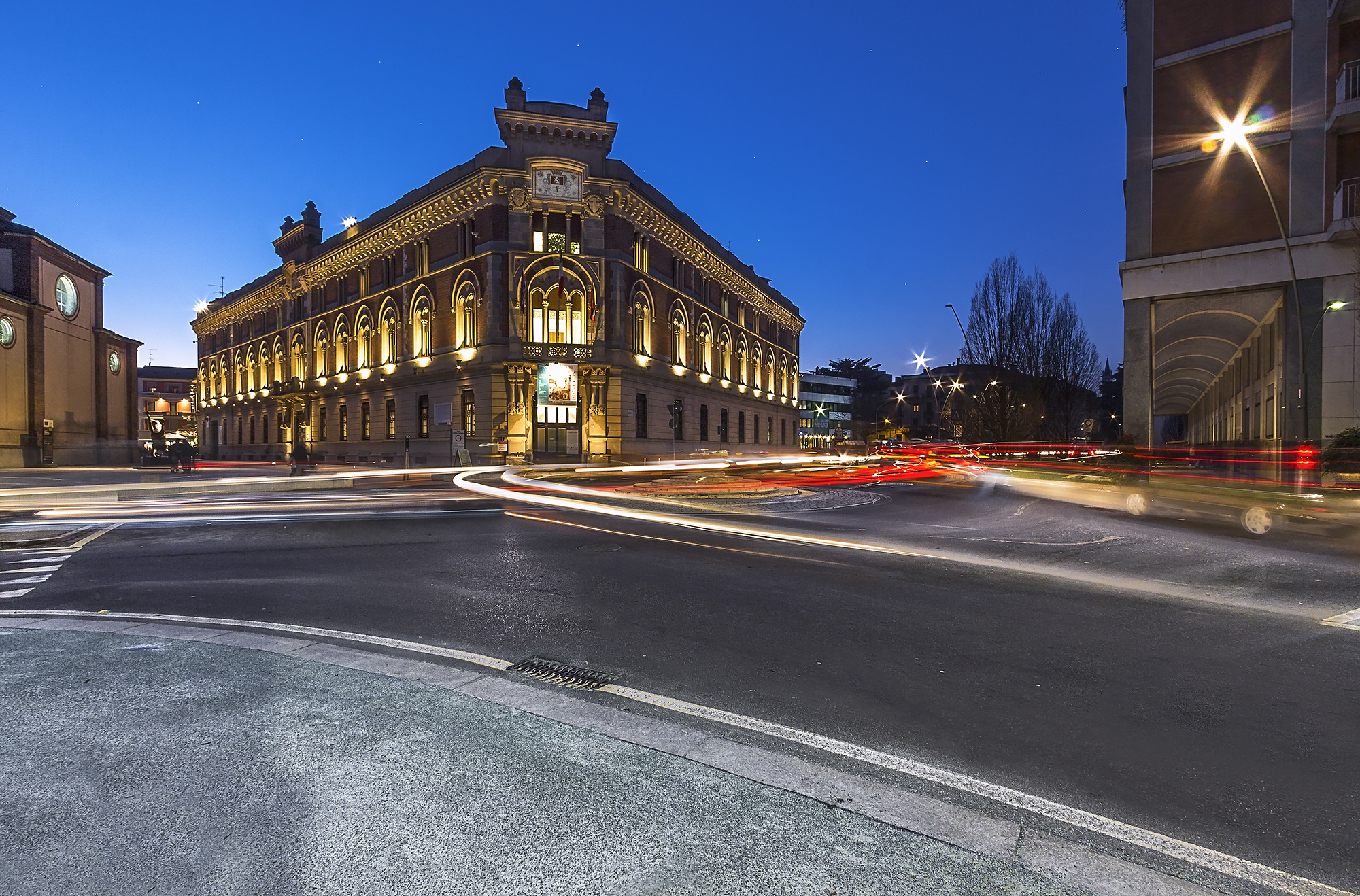 PALAZZO MALINVERNI , sede del comune di Legnano This is a photo of a monument which is part of cultural heritage of Italy.